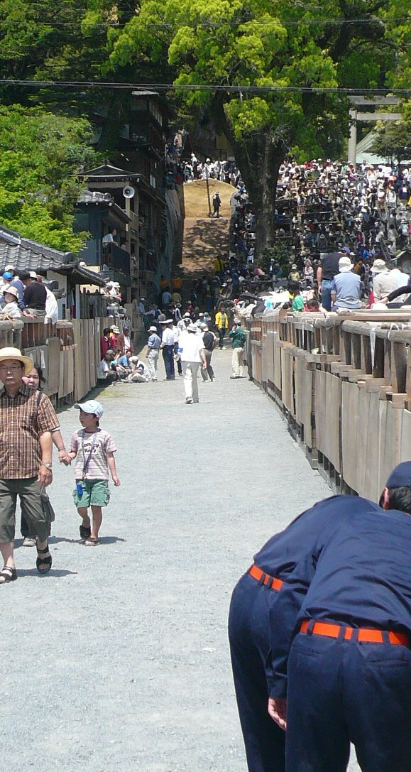 A picture of the Tado Festival in Kuwana, Mie Prefecture.